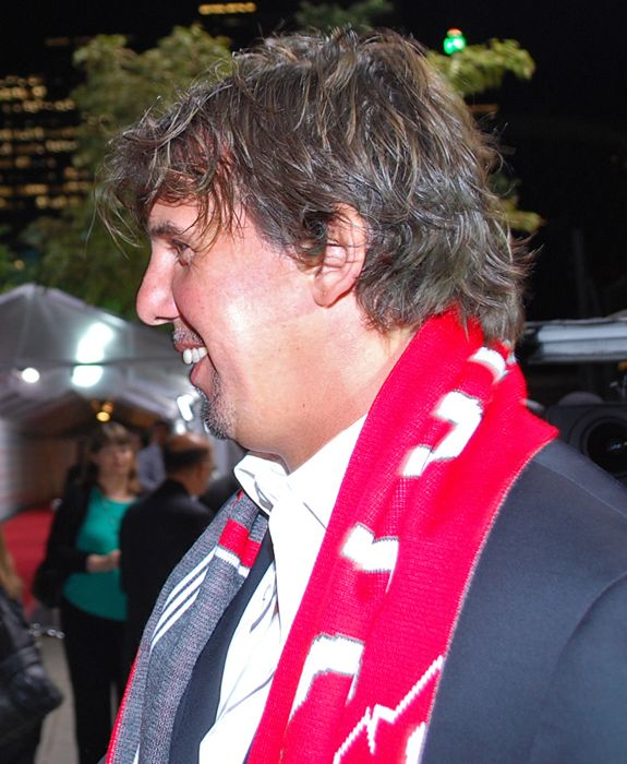 I don't know which TFC player this is. Oh well...